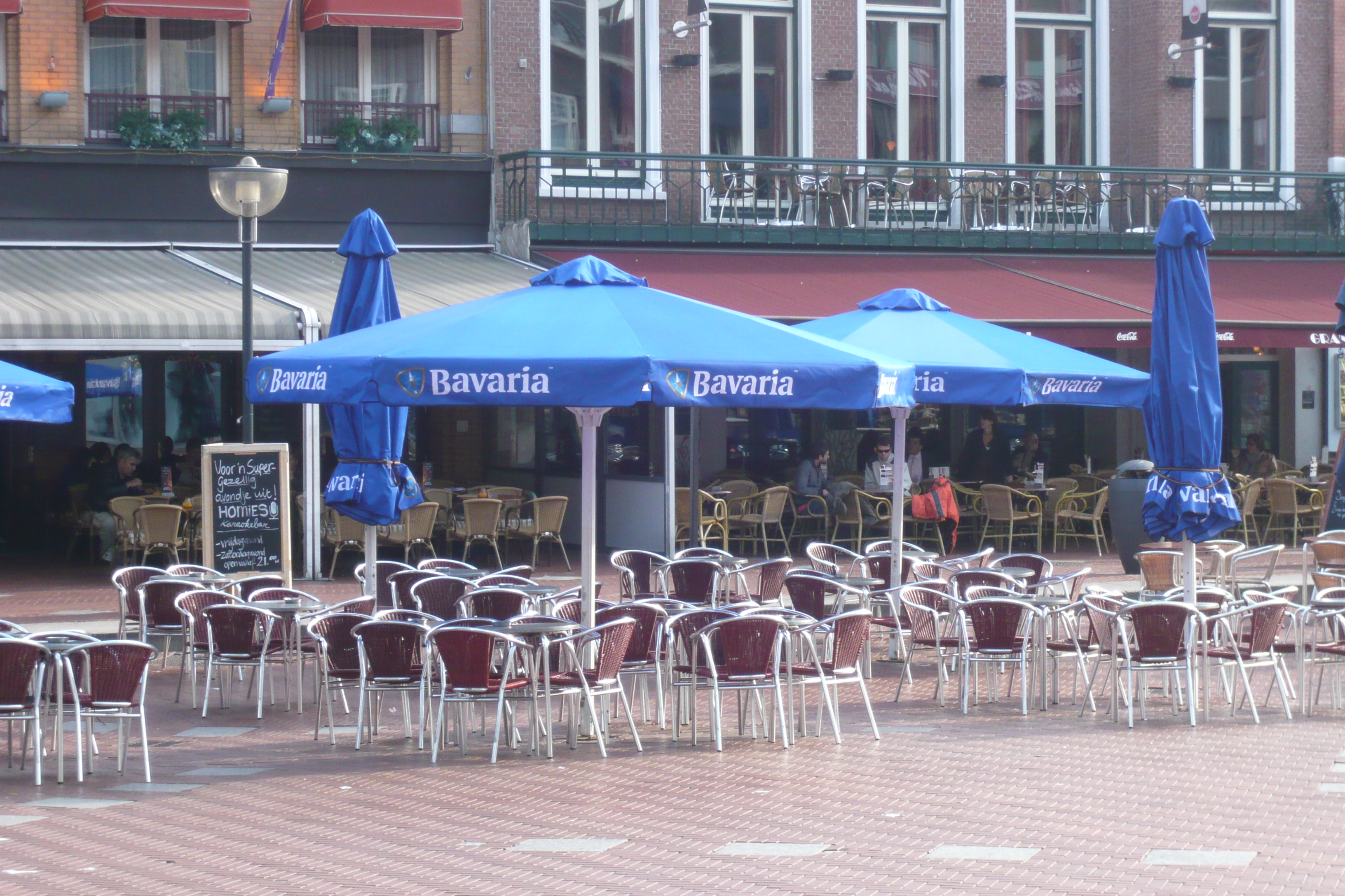 Logo of the Bavaria beer company